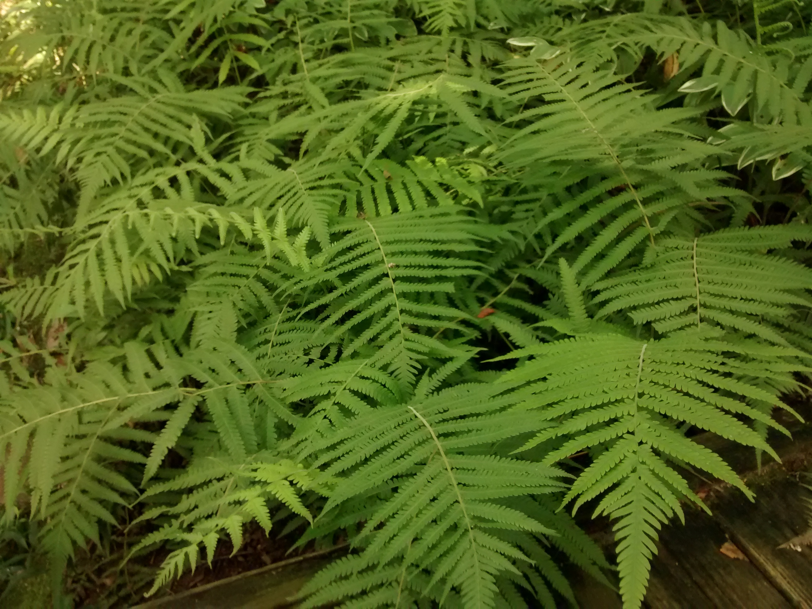 A Southern Shield Fern (Thelypteris kunthii) at Coker Arboretum.